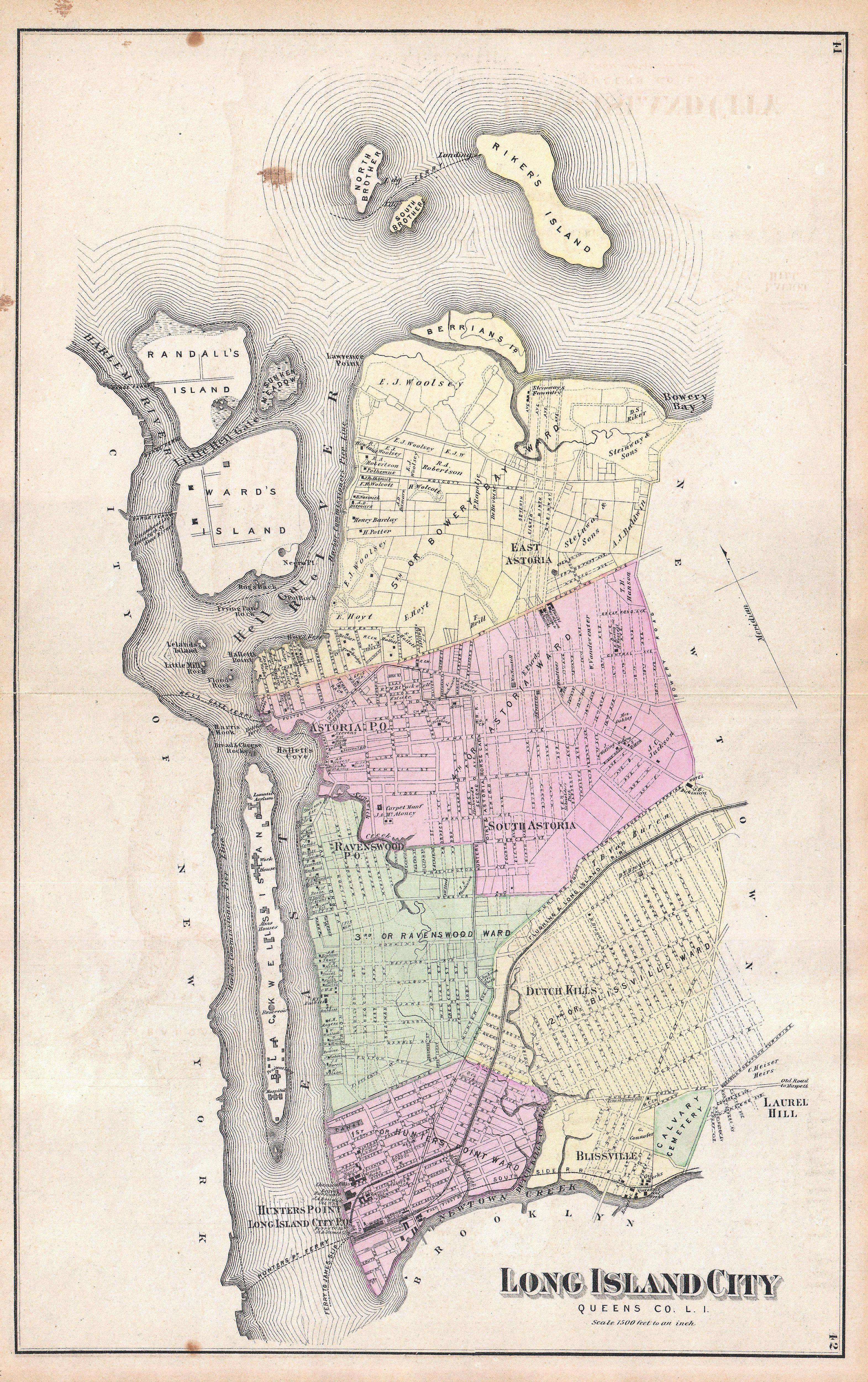 A scarce example of Fredrick W. Beers’ map of the Long Island City, Queens, New York. Published in 1873. Covers from Hunters Point and Long Island City northward past Ravenswood and Dutch Kills to include all of Astoria. Also includes Blackwell’s Island (Roosevelt Island), Hells Gate, Ward’s Island, Randall’s Island, and Riker’s Island. Detailed to the level of individual streets and important buildings. Lists estates and properties in Astoria. Notates ferry crossings between Long Island City and Astoria and the various Islands, including Manhattan. Detailed plans of Dutch Kills and Blissville on verso. This is probably the finest atlas map of Astoria and Long Island City, Queens to appear in the 19th century. Prepared by Beers, Comstock & Cline out of their office at 36 Vesey Street, New York City, for inclusion in the first published atlas of Long Island, the 1873 issue of Atlas of Long Island, New York.